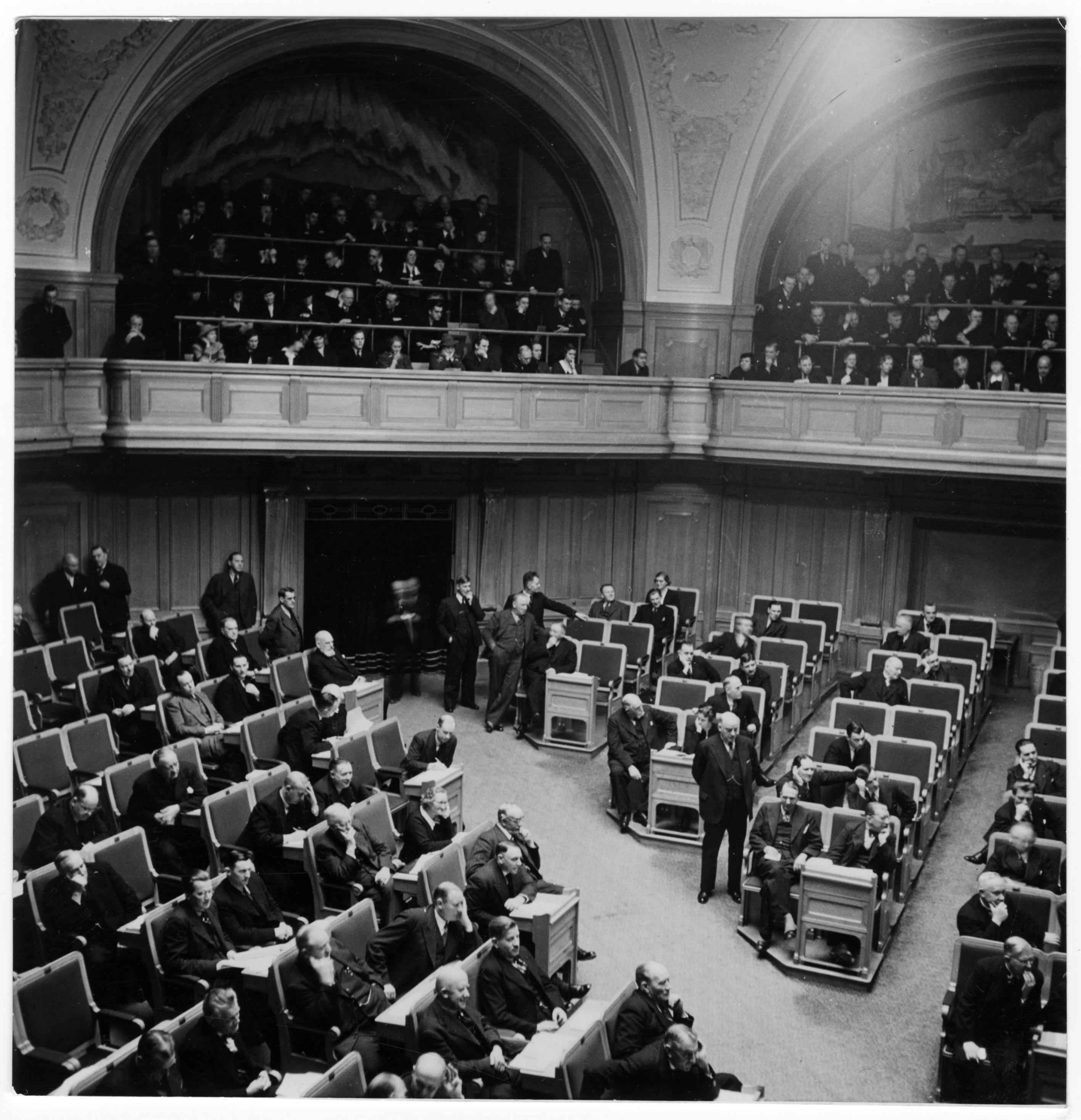 The second chamber of Swedish parliament in 1946. Standing up is the prime minister Per Albin Hansson. Only two female members of parliament are visible on the photo.